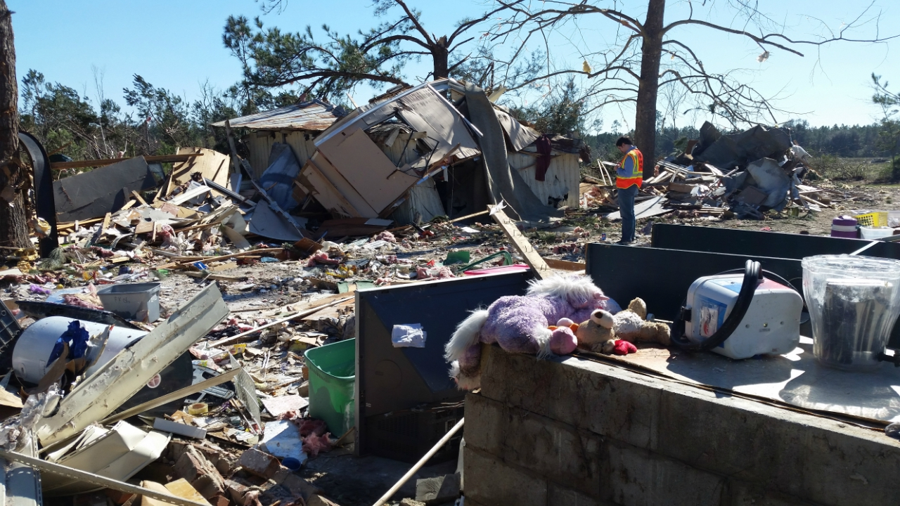 EF3-rated damage to a double-wide mobile home in Berrien County, Georgia, from a tornado on January 22, 2017